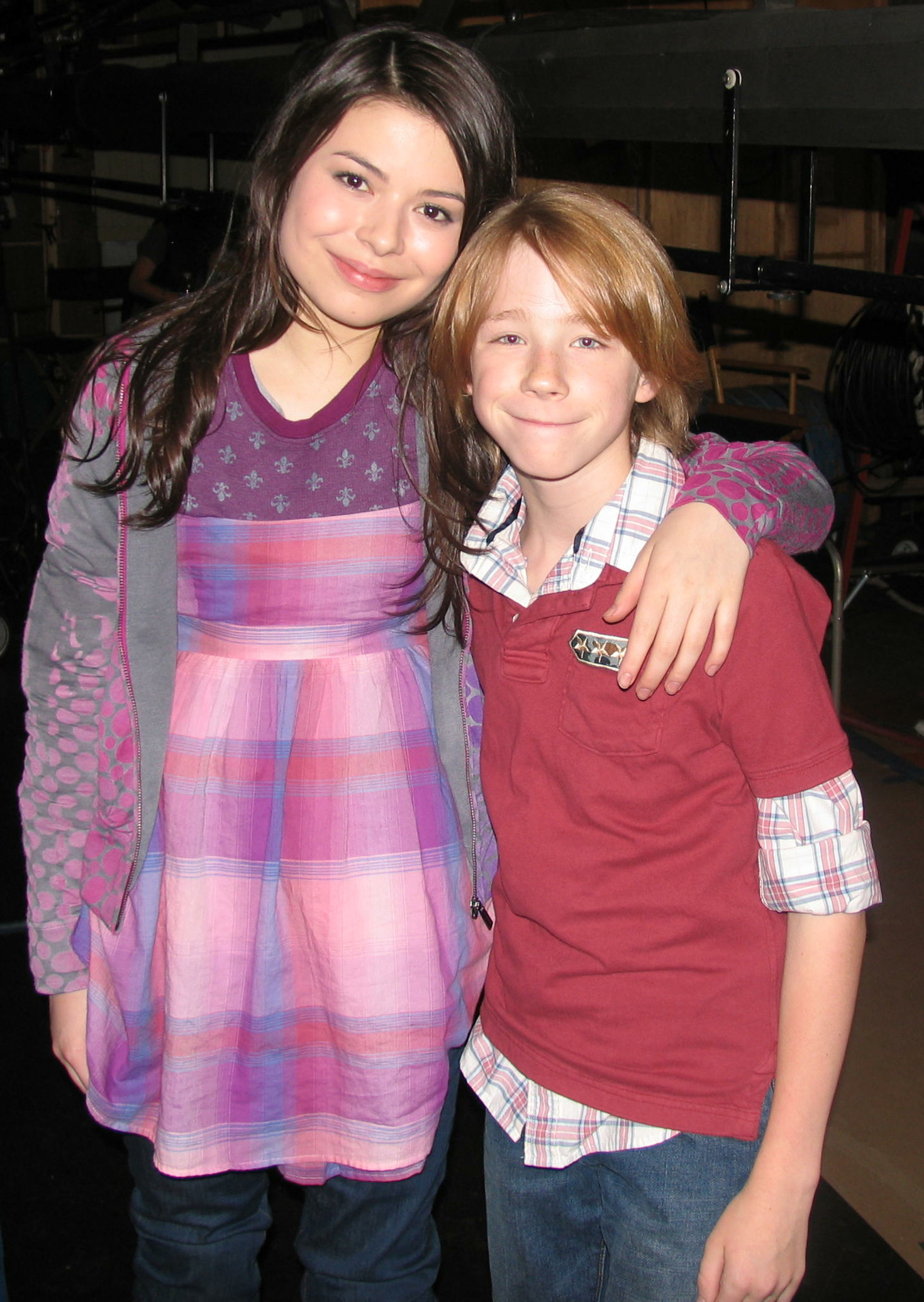 Miranda Cosgrove and Joey Luthman on "iCarly" in May 2009